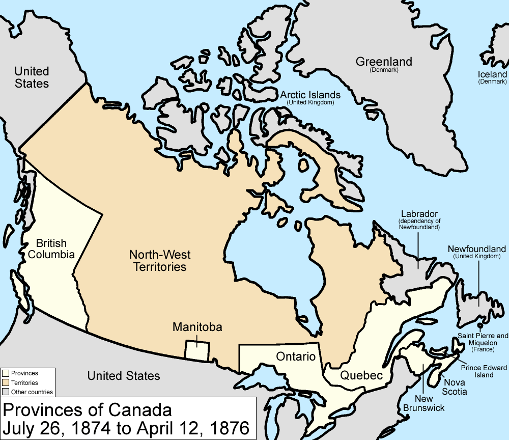 Map of the provinces and territories of Canada as they were from 1874 to 1876. On July 26 1874, the borders of Ontario were provisionally expanded north and west, anticipating future settlement, taking land from the North-West Territories. On April 12 1876, the District of Keewatin was cleaved from the North-West Territories. Made by User:Golbez.